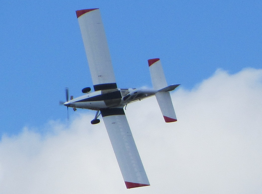 Thrush501g